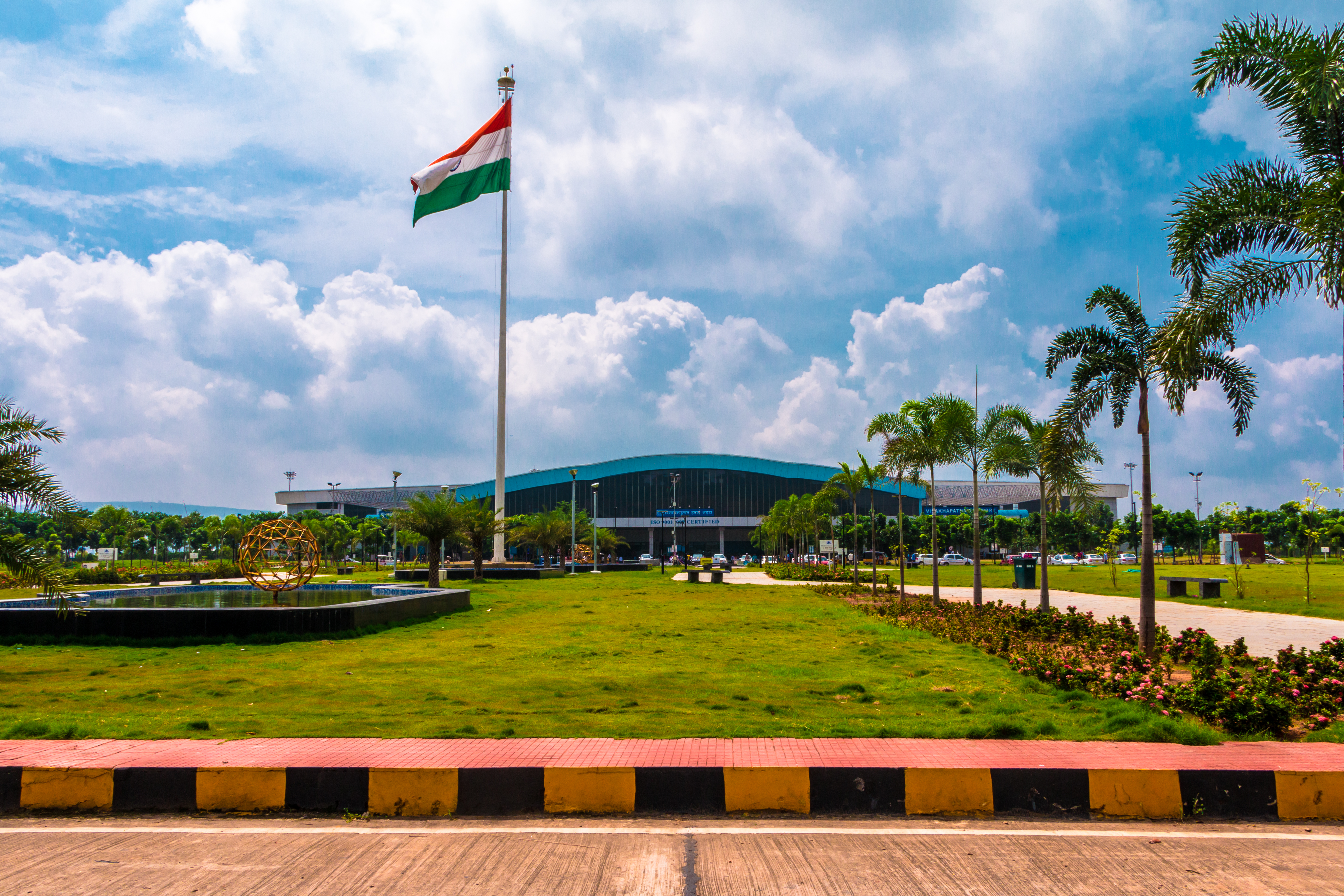 Lush Green Visakhapatnam International Airport